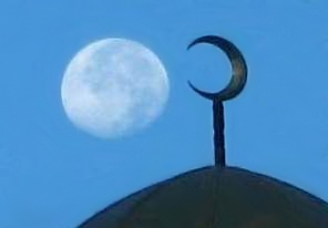 The Moon and the Crescent of a mosque. Nakhchivan, Azerbaijan